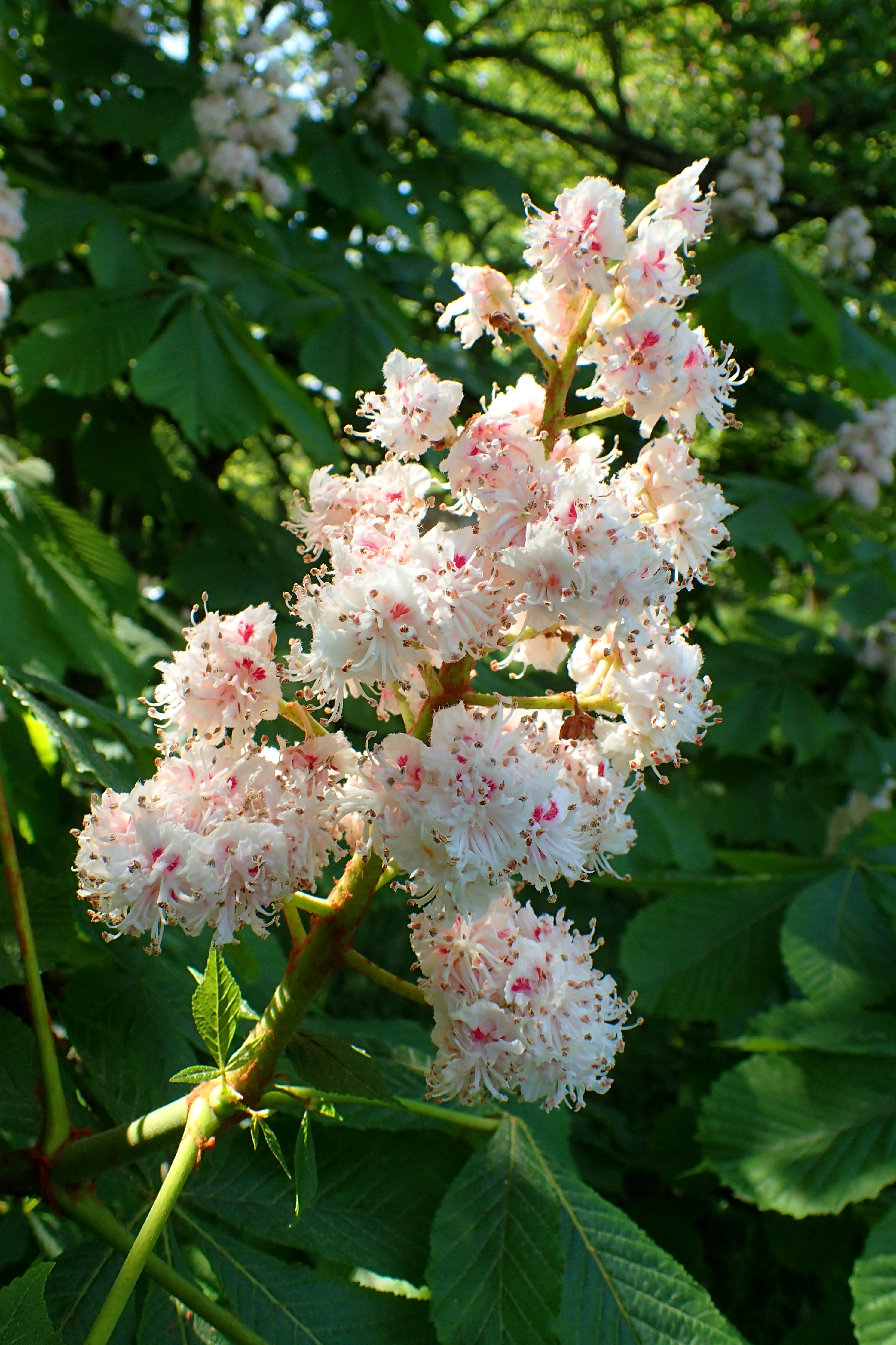 Aesculus hippocastanum 'Plena' in the Botanischer Garten, Berlin-Dahlem